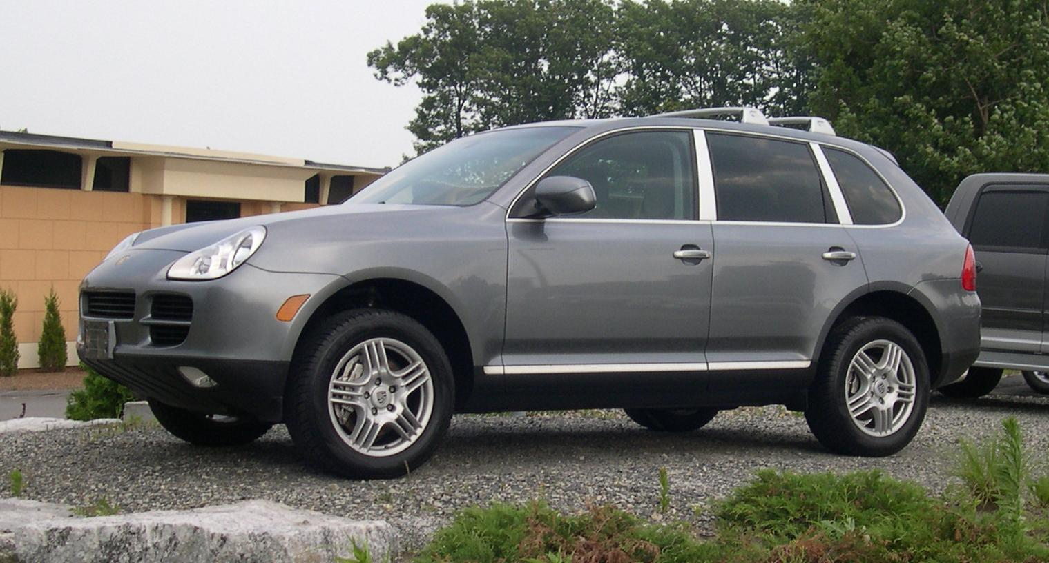 2004 Porsche Cayenne S Source: Photo by User:Sfoskett